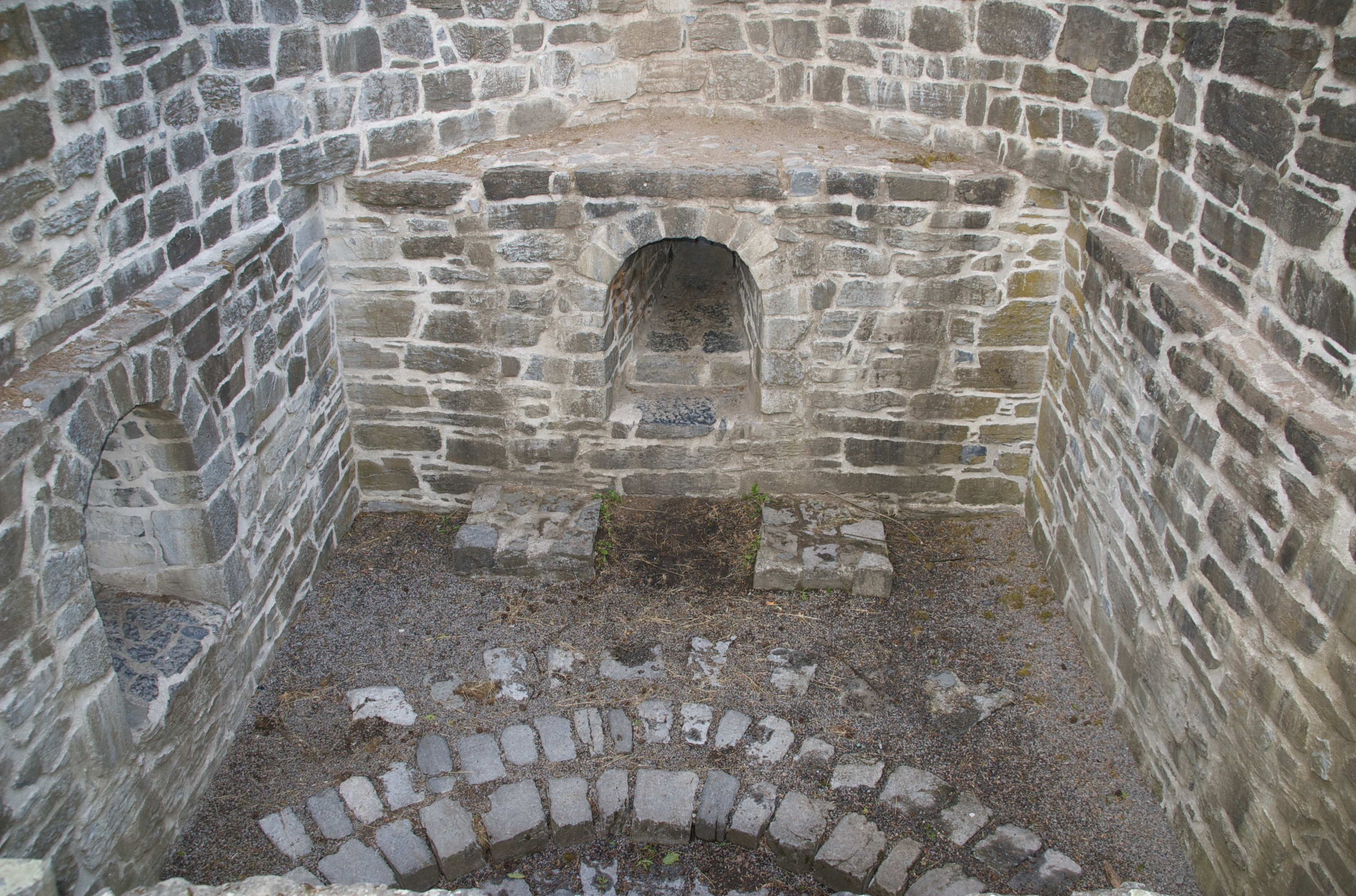 Kapitelberget in Skien, Norway. Ruins of a crypt church from the first half of the 12th century.